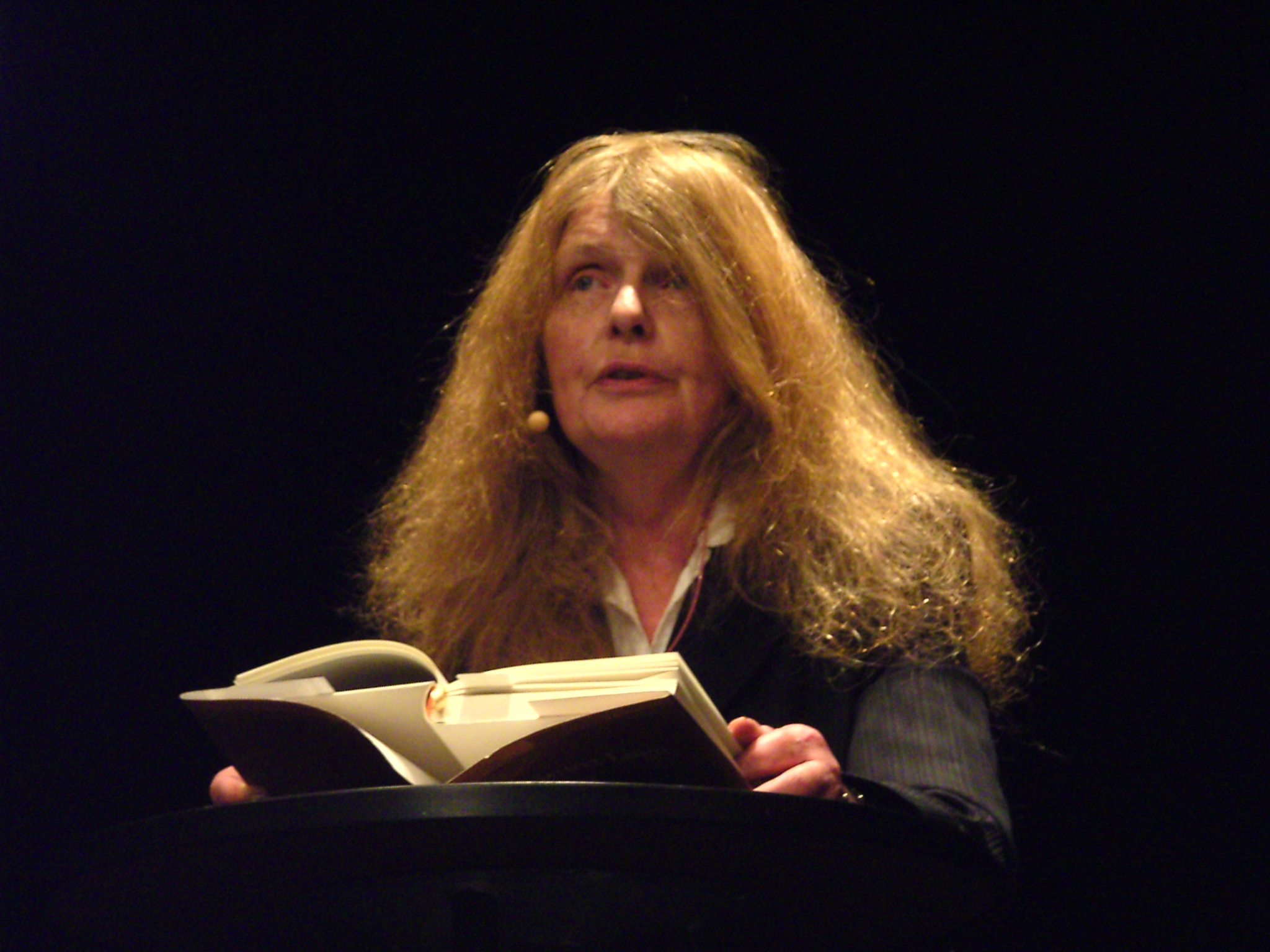 A photograph of Kristina Lugn on stage at Stockholm City Theatre